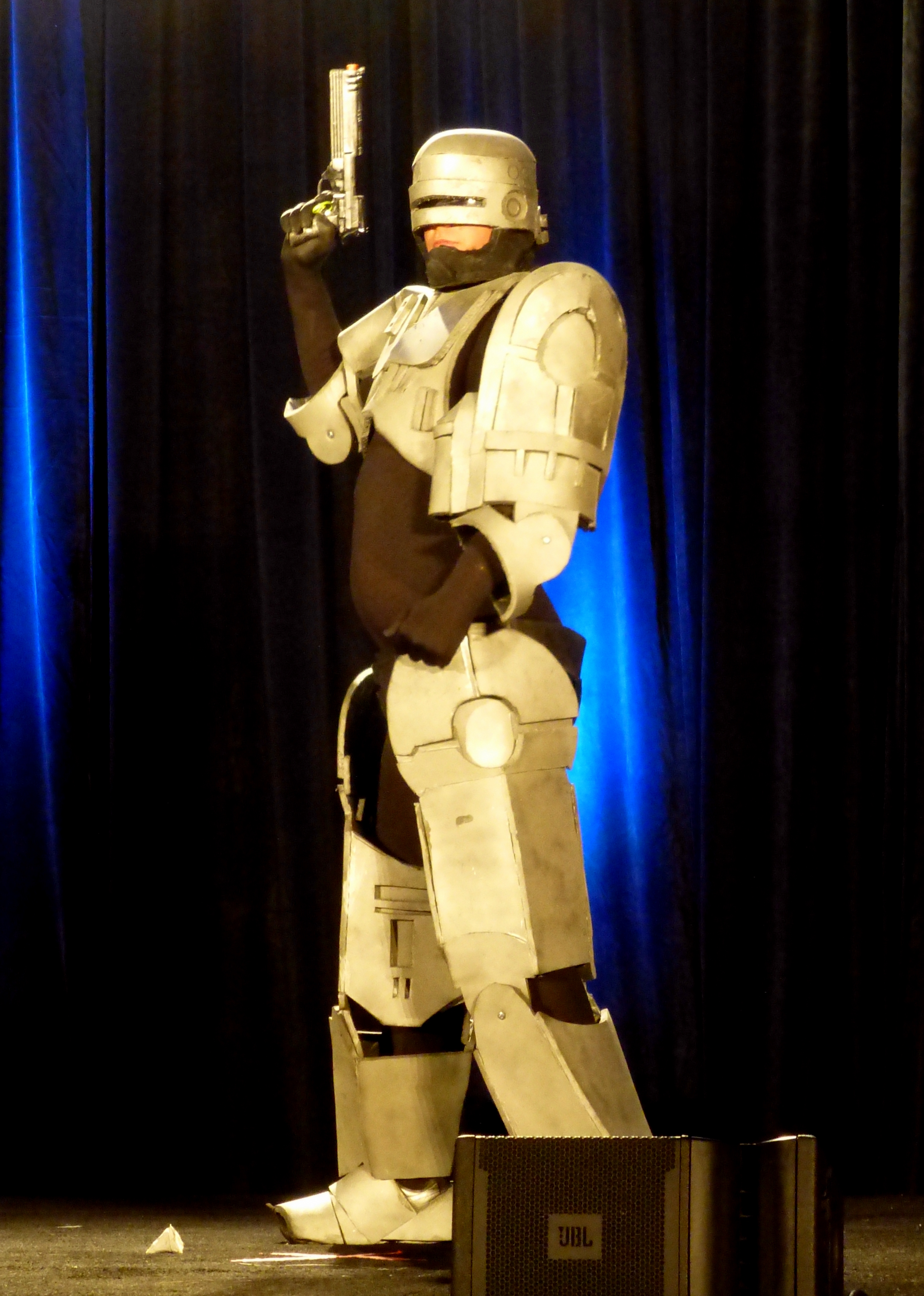 Robocop Costume contest at the 2015 Wizard World Chicago.